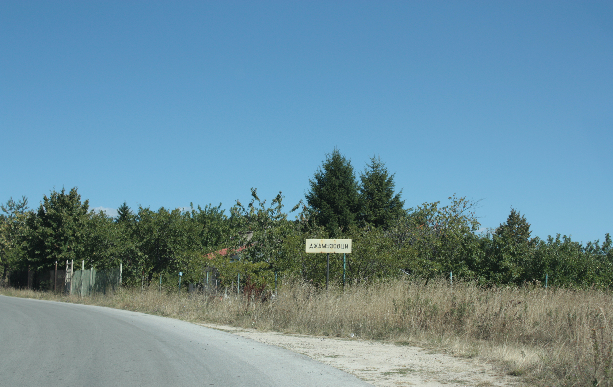 Dzhamuzovtsi village, Sofia District, Bulgaria